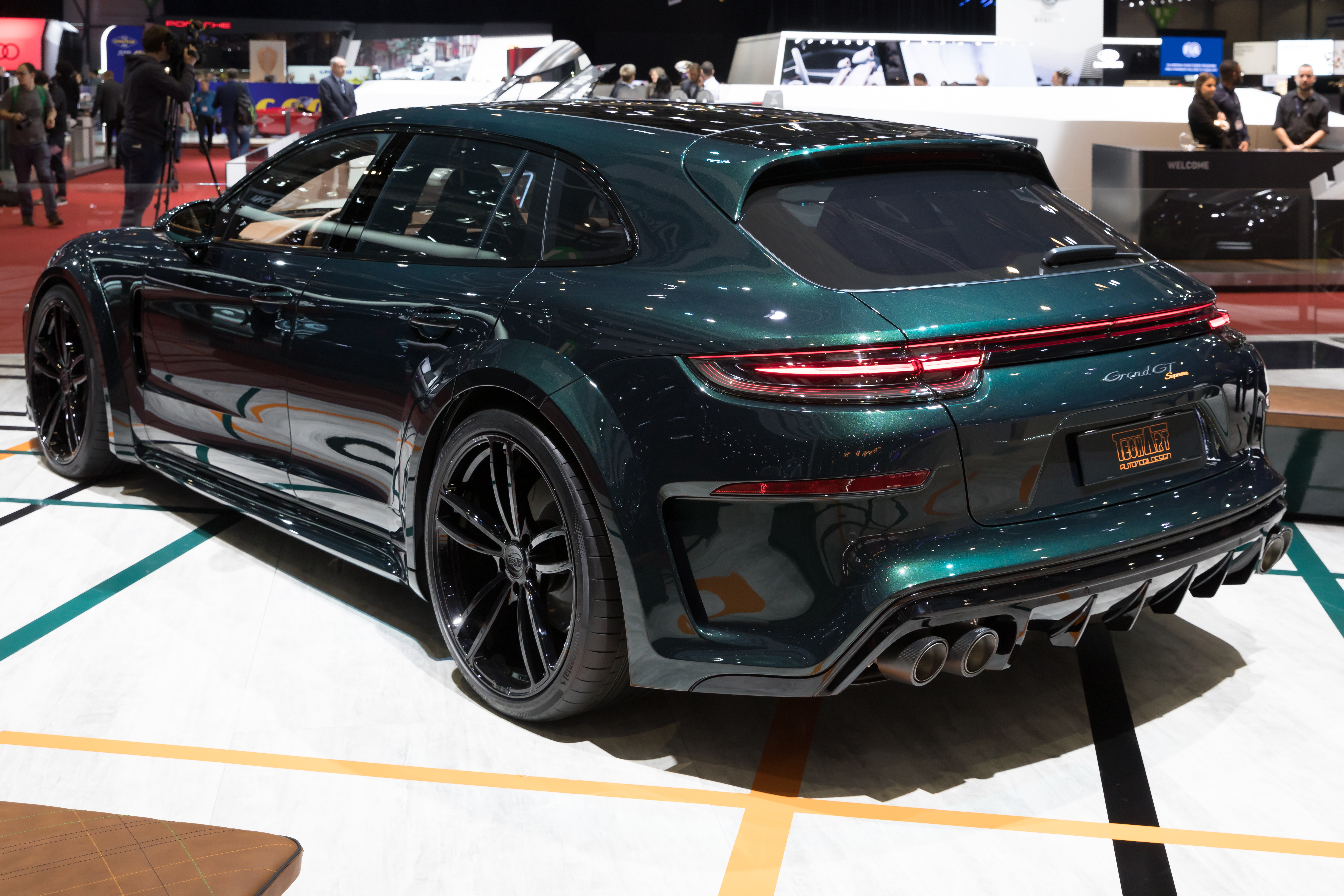 Geneva International Motor Show 2018